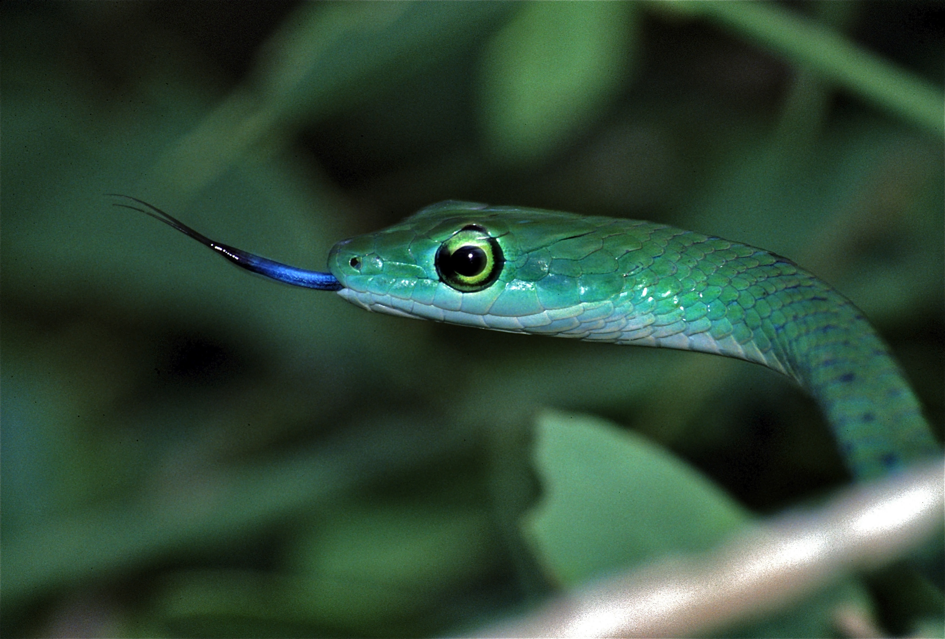 Samburu National Reserve, KENYA Scanned slide from 2004